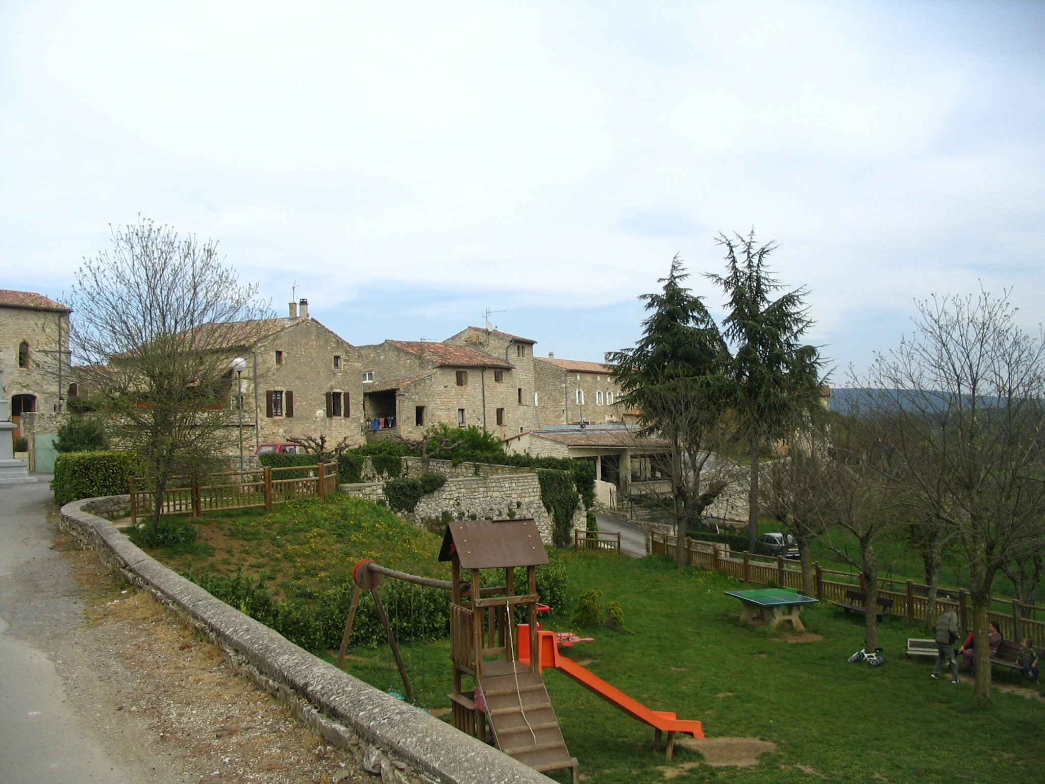 Village of Vagnas, Ardèche region, France